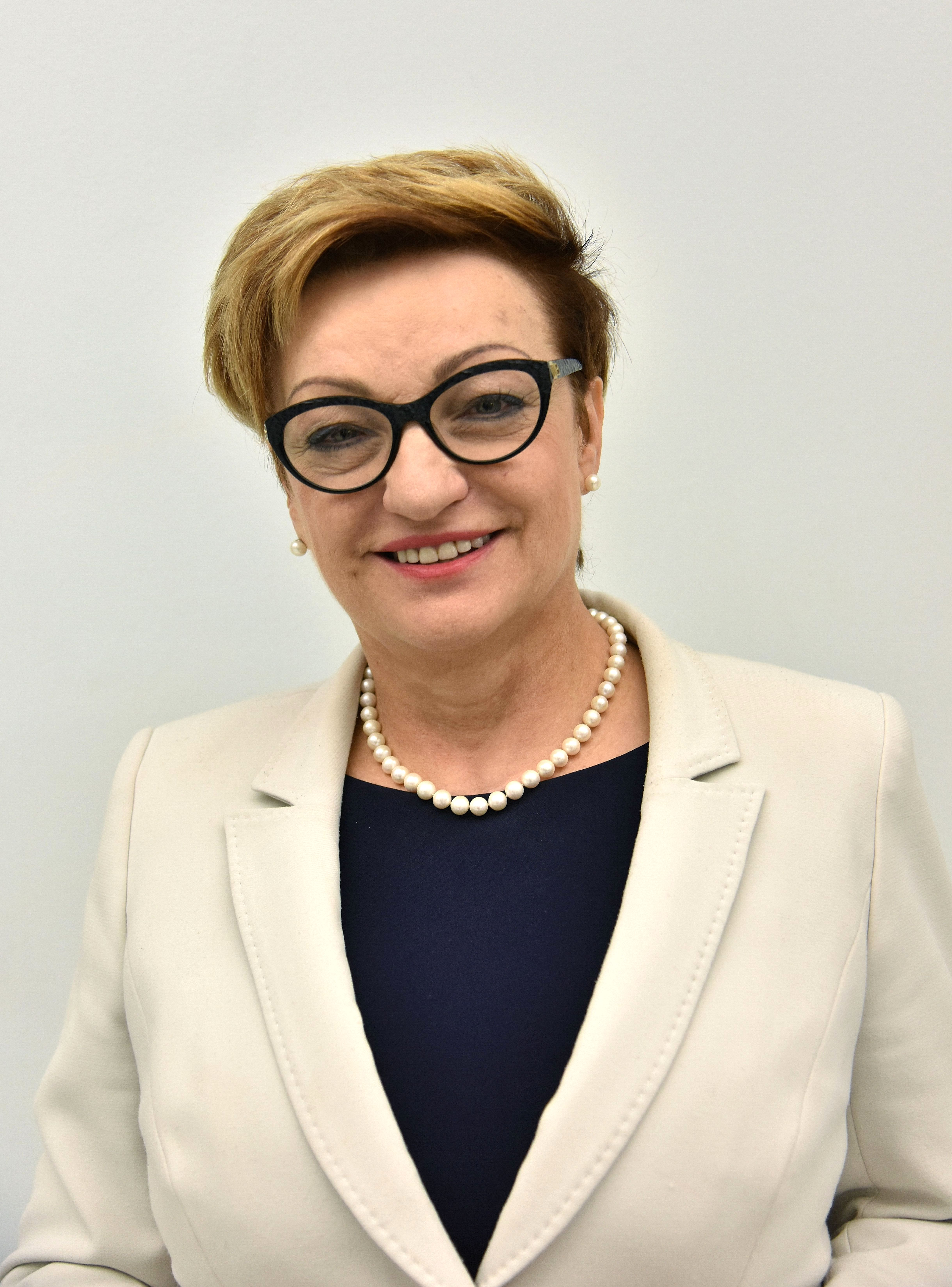 Polish MP Mirosława Nykiel in the Sejm